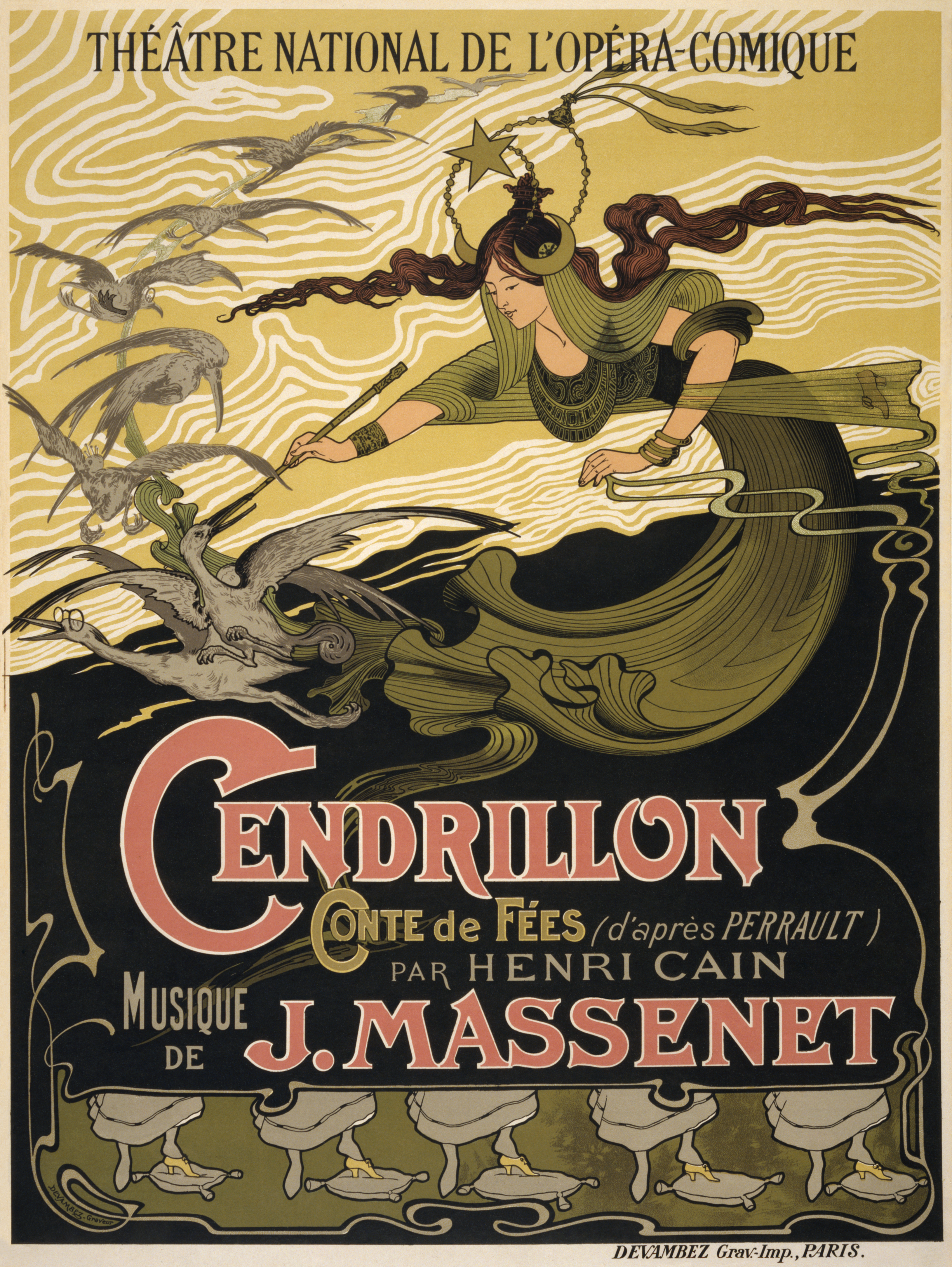 Émile Bertrand's poster for Jules Massenet's Cendrillon, advertising the première performance at the Théâtre National de l'Opéra-Comique, Paris.